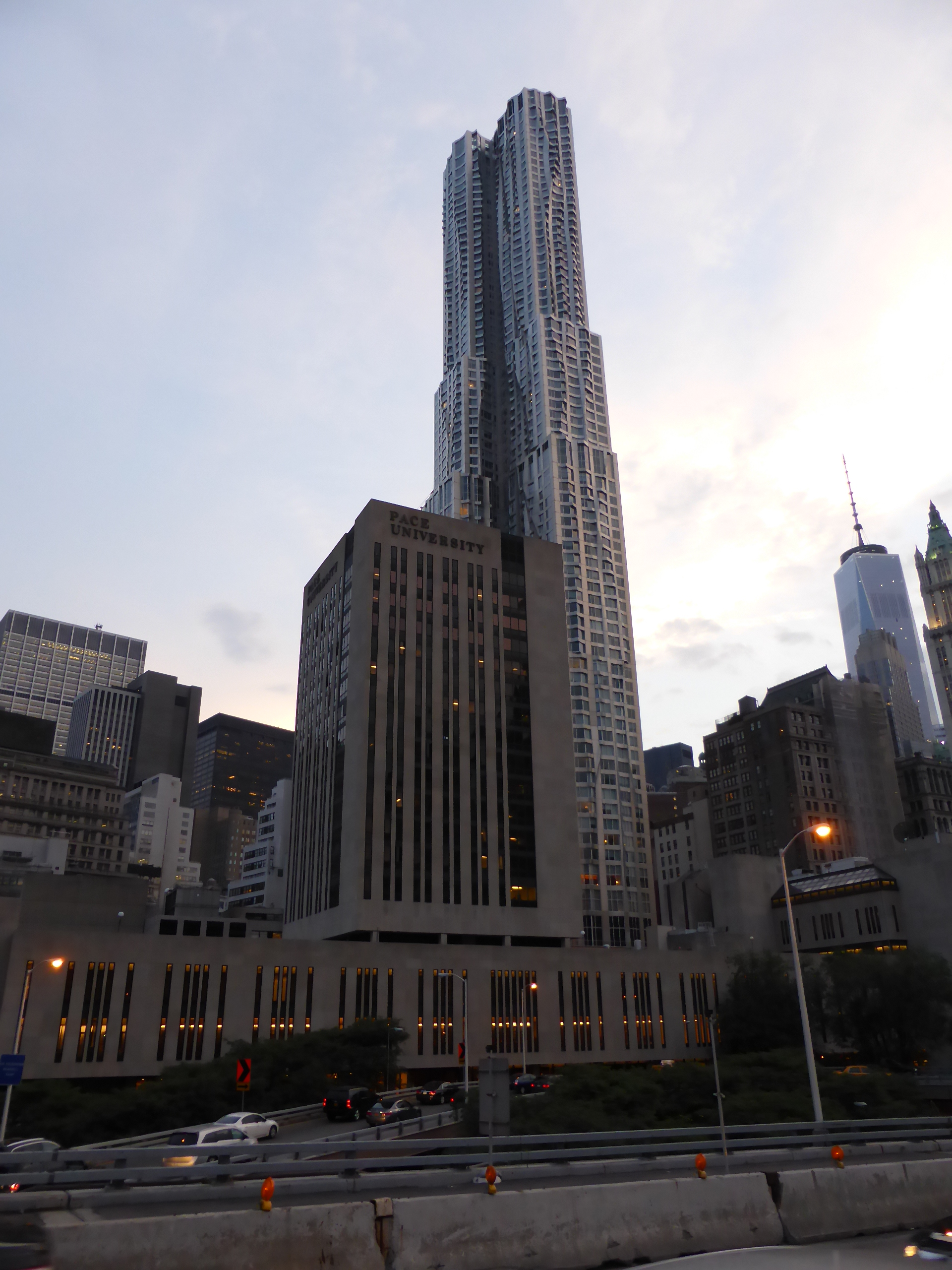 New York City (Manhattan)